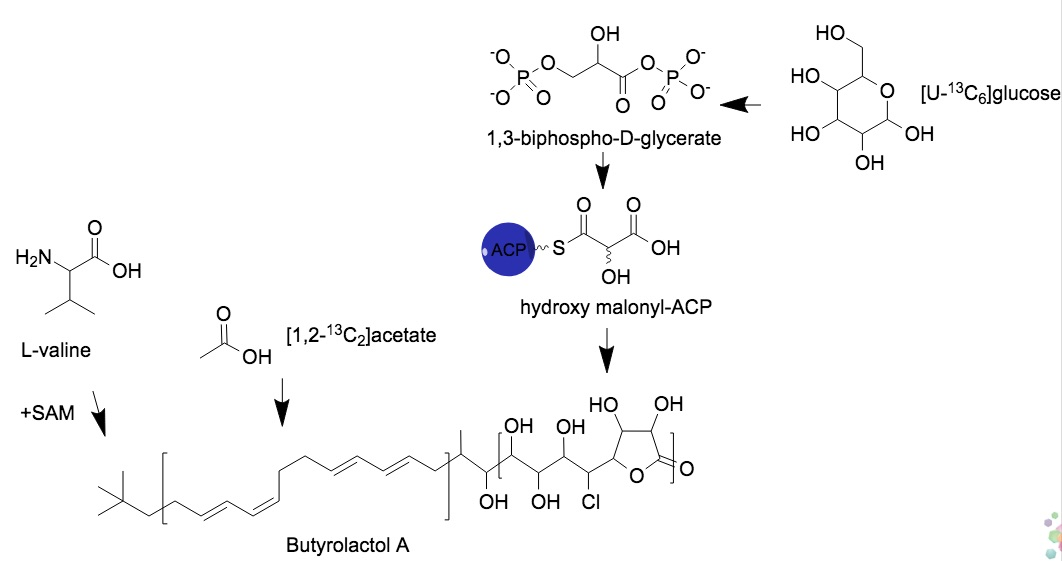 This is a description of the biosynthetic pathway for butyrolactol A.